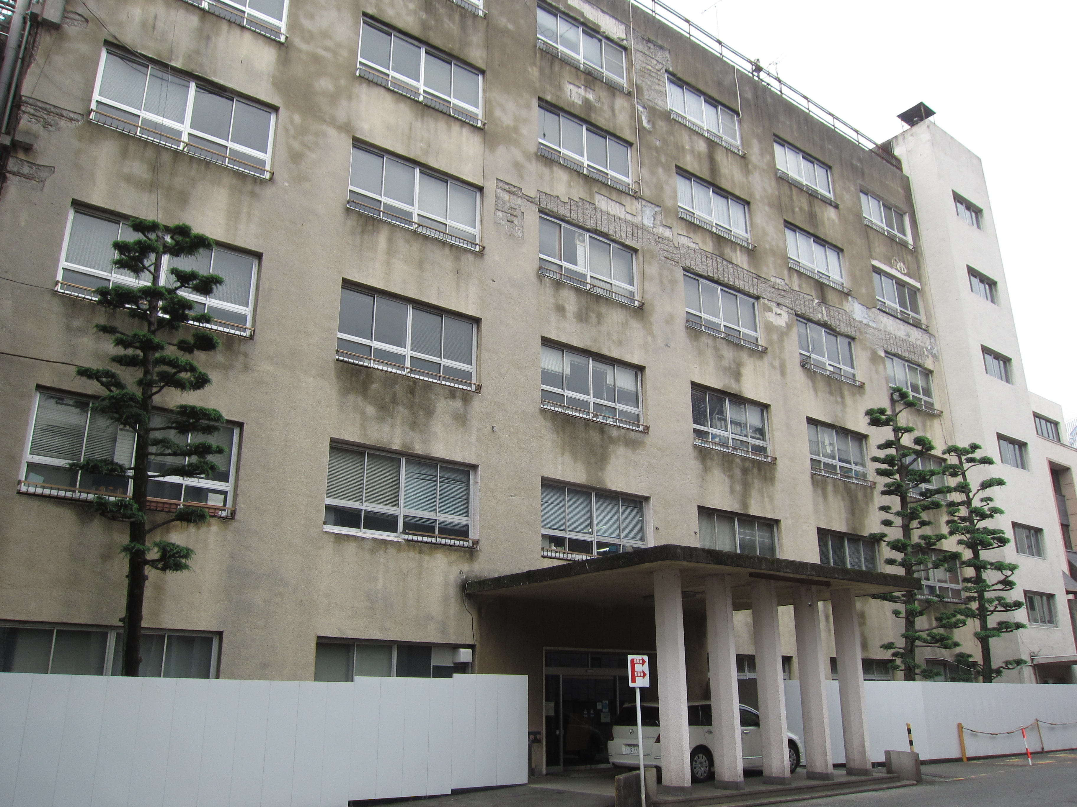 Atami City Hall